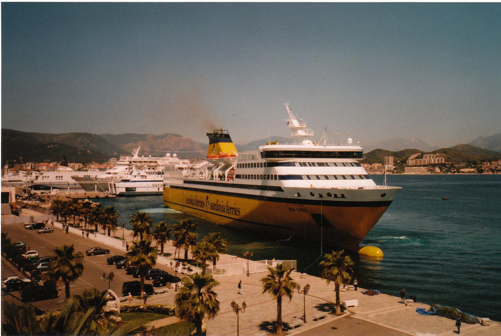 Mega Express in Ajaccio, Corsica in 2001